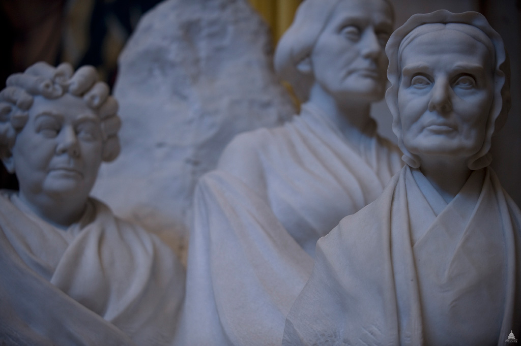 This group portrait monument to the pioneers of the woman suffrage movement, which won women the right to vote in 1920, was sculpted by Adelaide Johnson (1859-1955) from an 8-ton block of marble in Carrara, Italy. Sculpture by Adelaide Johnson Marble 1920 Rotunda U.S. Capitol This official Architect of the Capitol photograph is being made available for educational, scholarly, news or personal purposes (not advertising or any other commercial use). When any of these images is used the photographic credit line should read “Architect of the Capitol.” These images may not be used in any way that would imply endorsement by the Architect of the Capitol or the United States Congress of a product, service or point of view. For more information visit